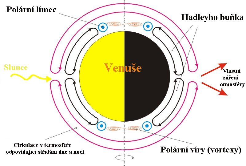 Circulation in the atmosphere of Venus